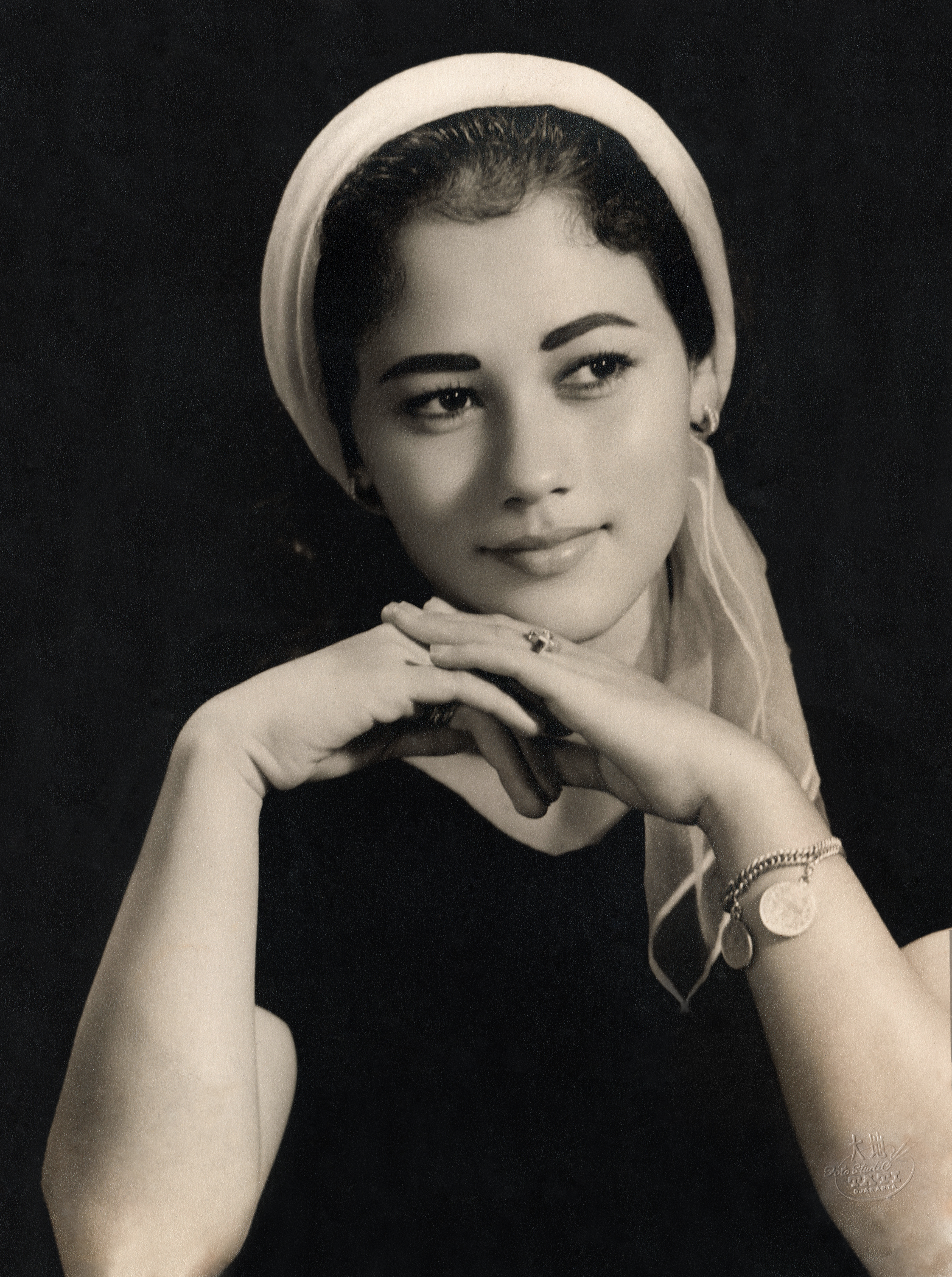 Indonesian film actress Suzzanna, c 1963, Tati Studios. Restored from File:Suzzanna, c 1963, Tati Photo Studio - Before restoration.jpg